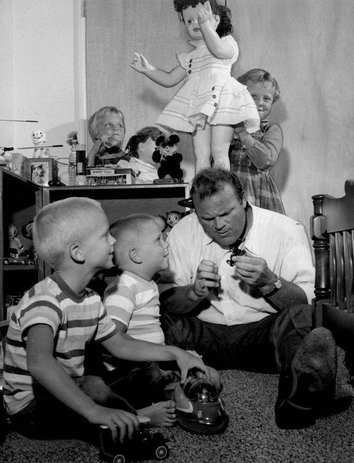 Photo of Dan Blocker and his four children. His two sons are in the foreground with him while his two daughters are in the background with the large doll.